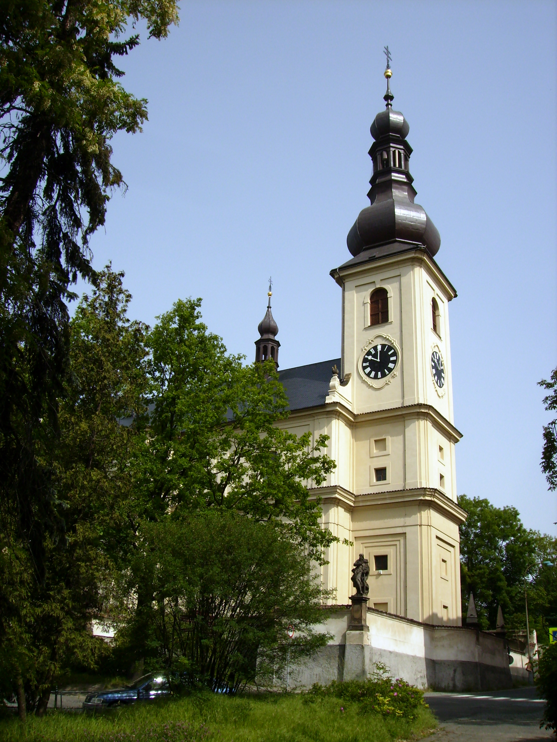 Church of John the Baptist in Lysá nad Labem, Nymburk District, Central Bohemian Region, Czech Republic